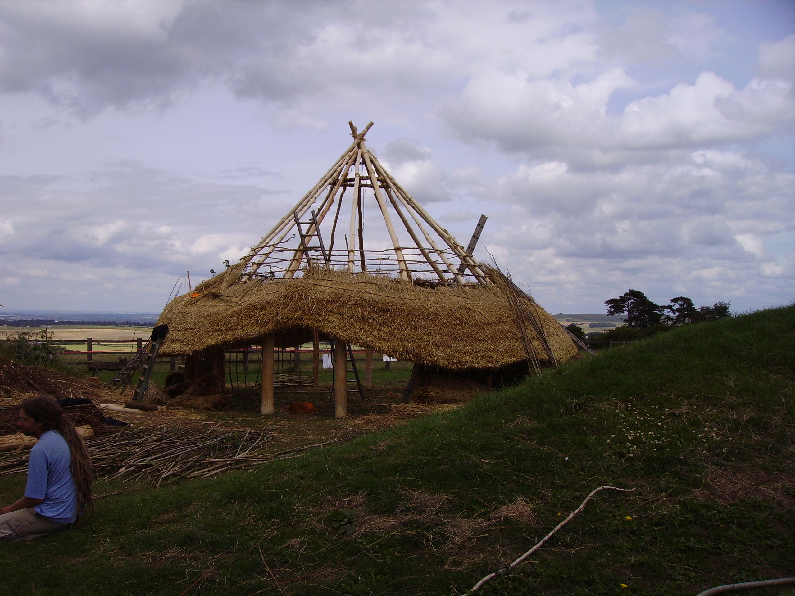 Photographer: User:Ballista